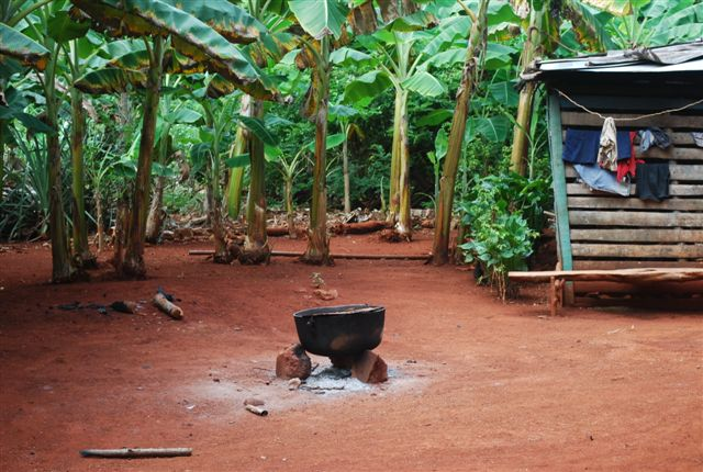 The mountains of Baracoa, Cuba.